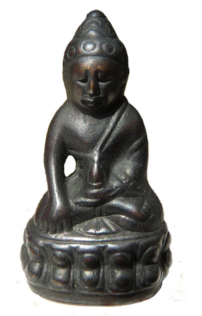 natachai